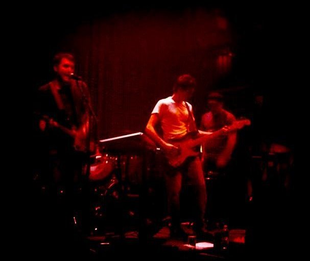 Echo Orbiter live at Johnny Brenda's in Philadelphia on September 18, 2010